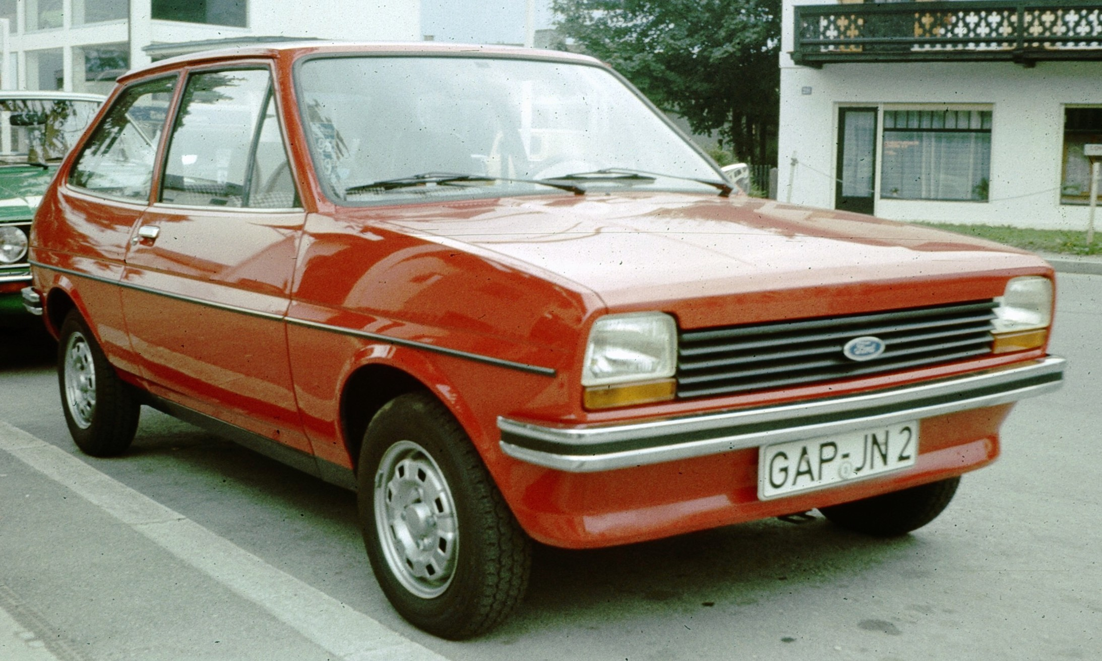 Ford Fiesta, shortly after launch in or near Garmisch-Partenkirchen